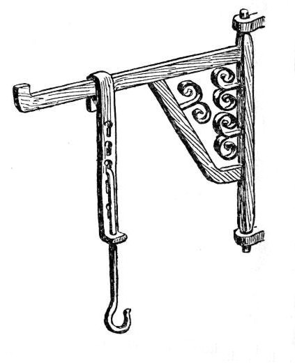 Chimney or fireplace crane fixed to back or sidewall and used to swing pots and kettles in and out of fireplace. Height above fire could be adjusted by the trammel (trammel hook).